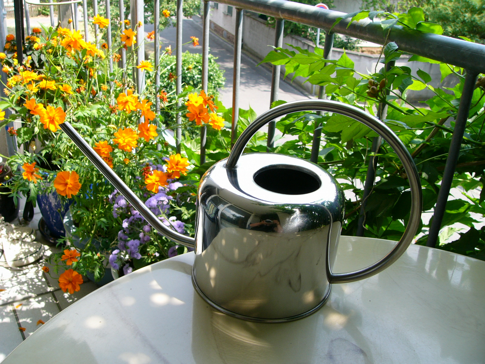 Gießkanne für Zimmerpflanzen